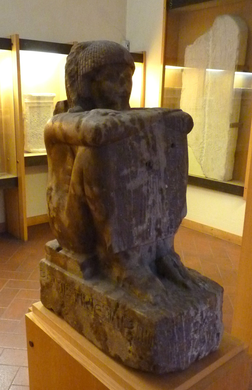 Block statue of the High Priest of Ptah in Memphis, Ptahmose, son of Menkheper. Quartz conglomerate; reign of Amenhotep III, 18th dynasty, New Kingdom. Florence, Museo archeologico nazionale, n. 1790 (Cat. Schiaparelli n. 1505).